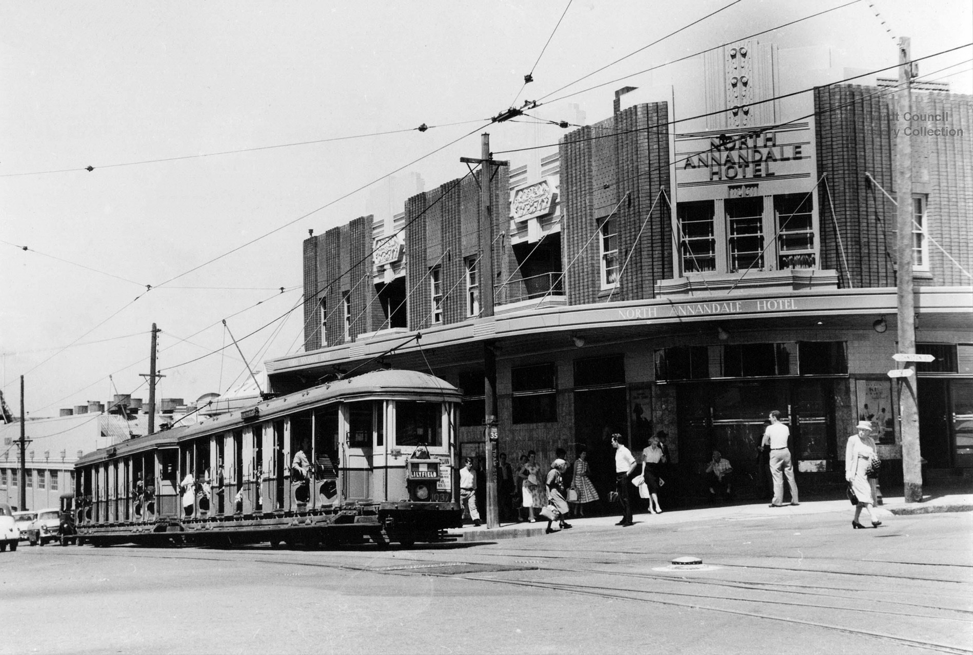 Tram in Booth St Annandale, New South Wales